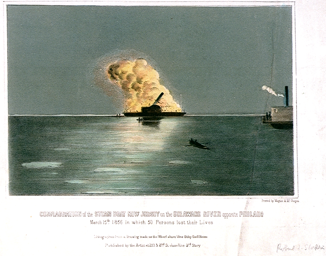 Conflagration of the steam boat New Jersey on the Delaware River opposite Philada, March 15th 1856 in which 50 Persons lost their lives Hand-coloured.